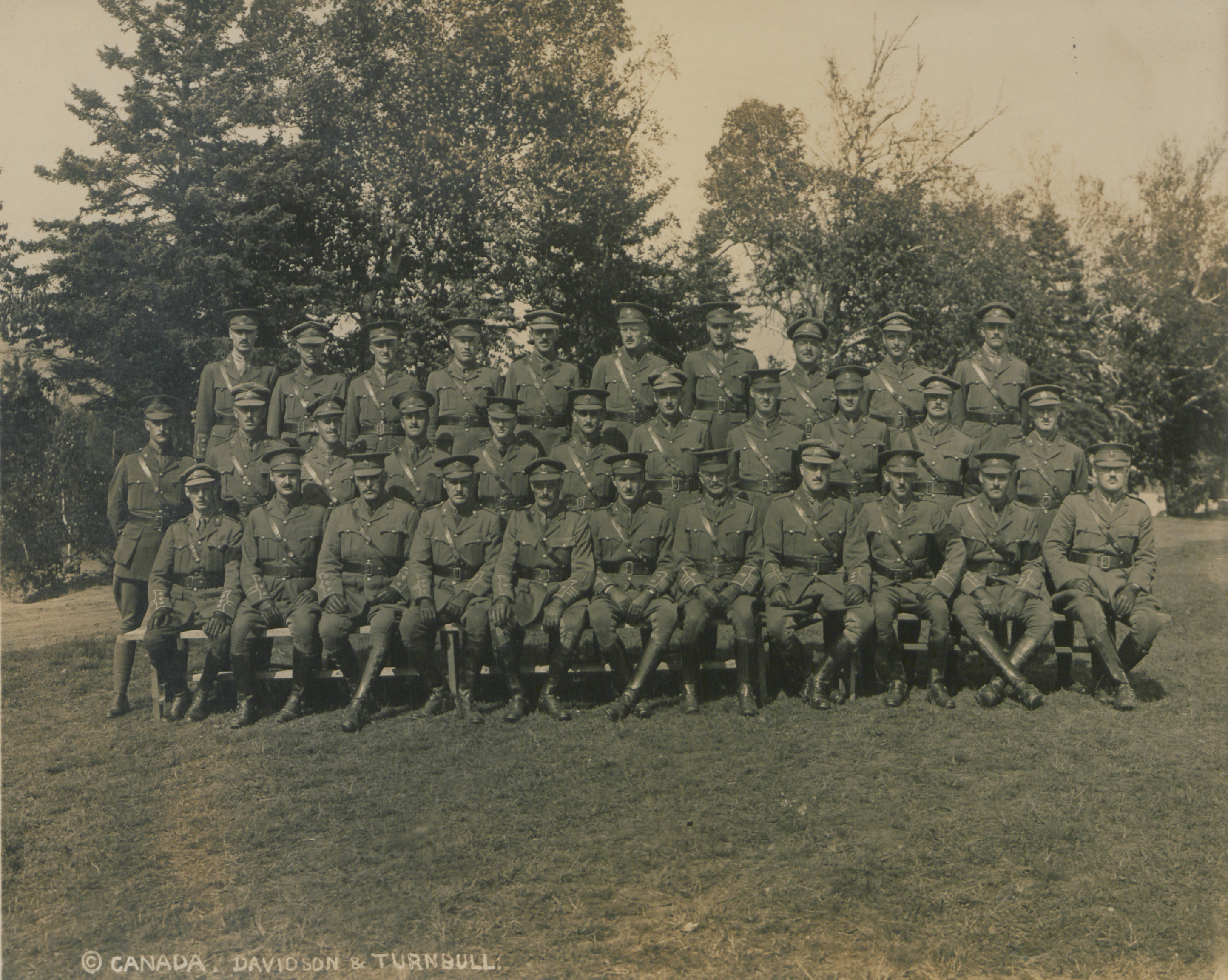 Original caption: “Officers of the 148th Overseas Battalion.”